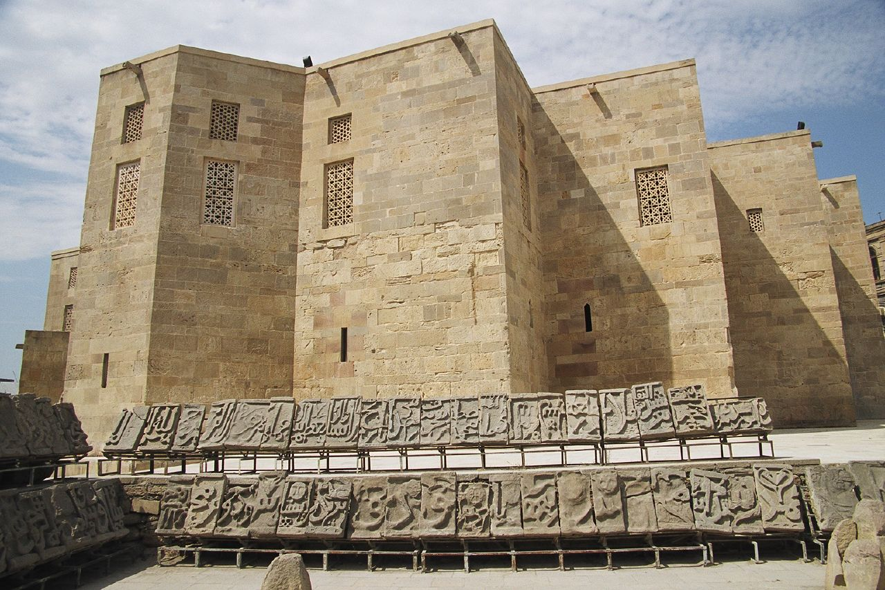 Palace of Shirvanshahs (15th century). Baku, Azərbaycan.